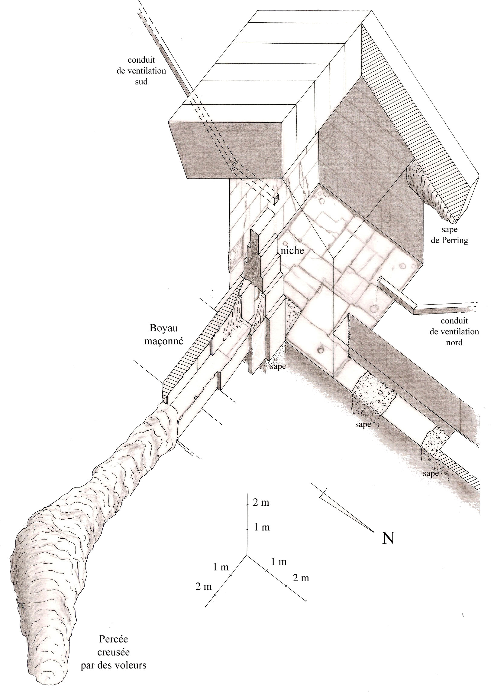 Isometric view of the Queen's chamber in the pyramid of Cheops